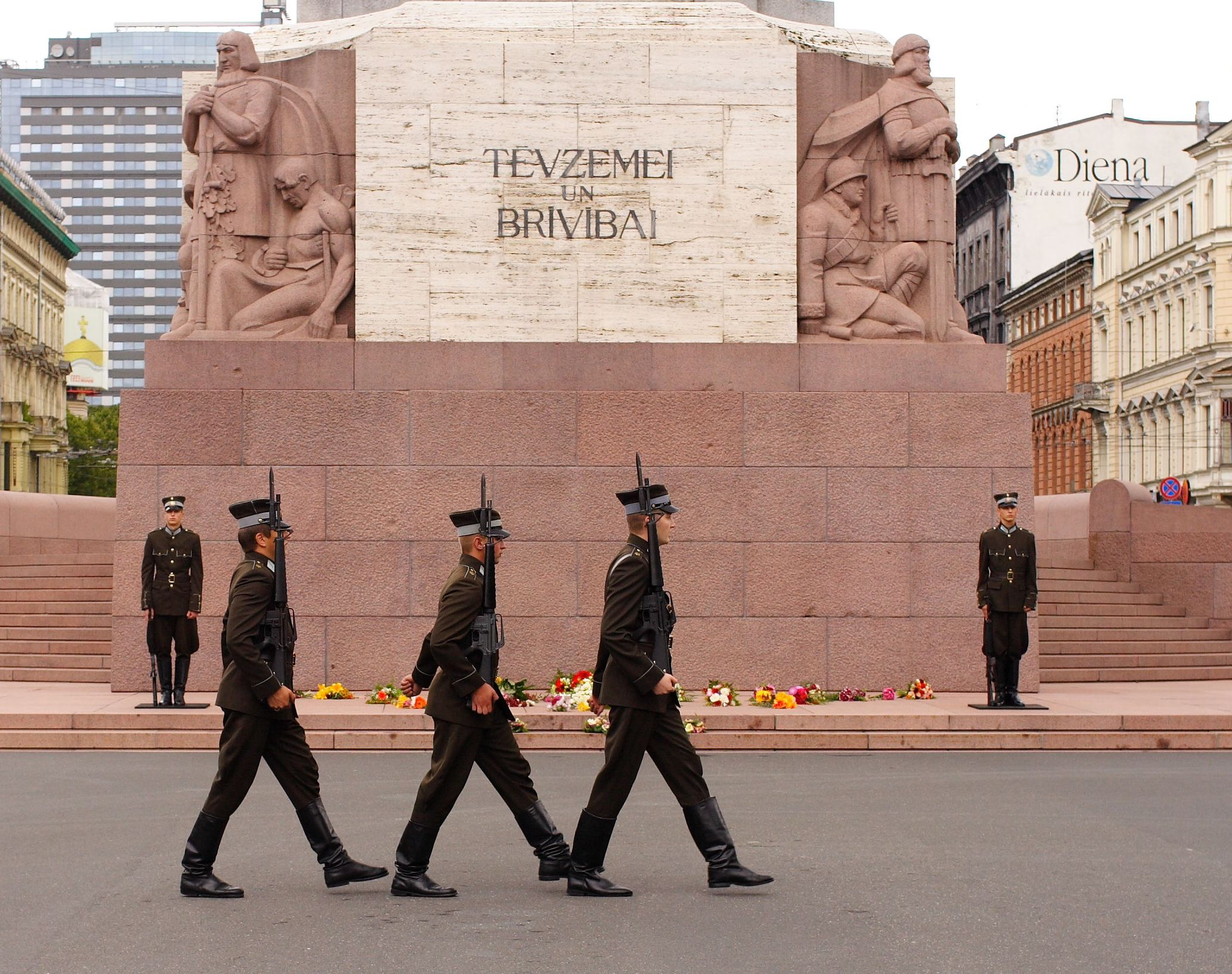 a change of the guard of honor at the Statue of Liberty in Riga